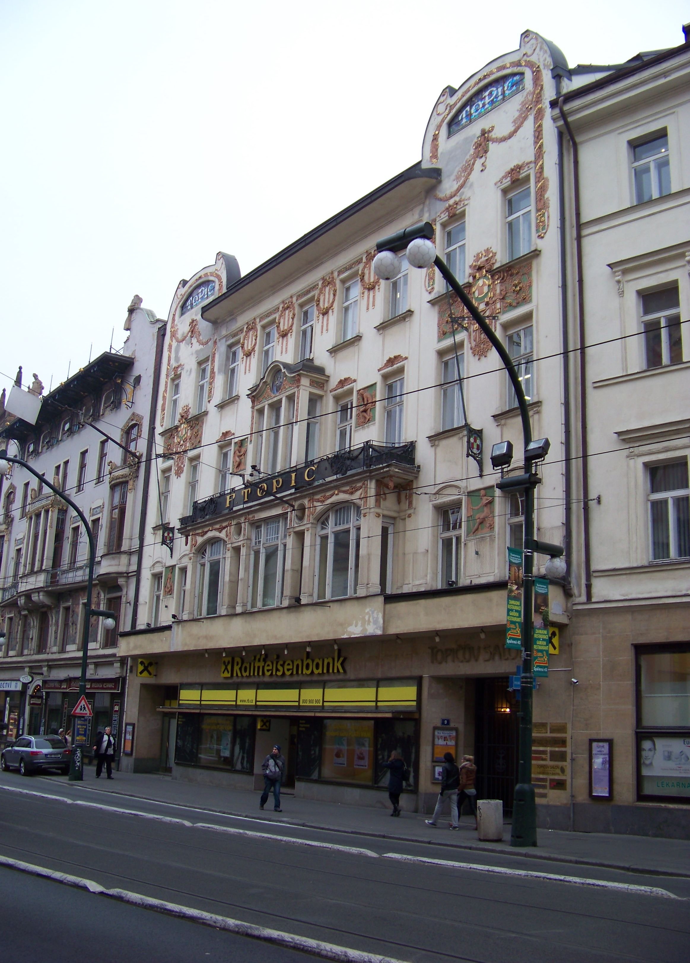 Prague-Old Town, the Czech Republic. Národní 1010/9, Topič House.